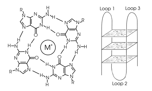 Slightly edited version of G-quadruplex.svg, places front line in front. Created with Inkscape, modified with Photoshop Elements.